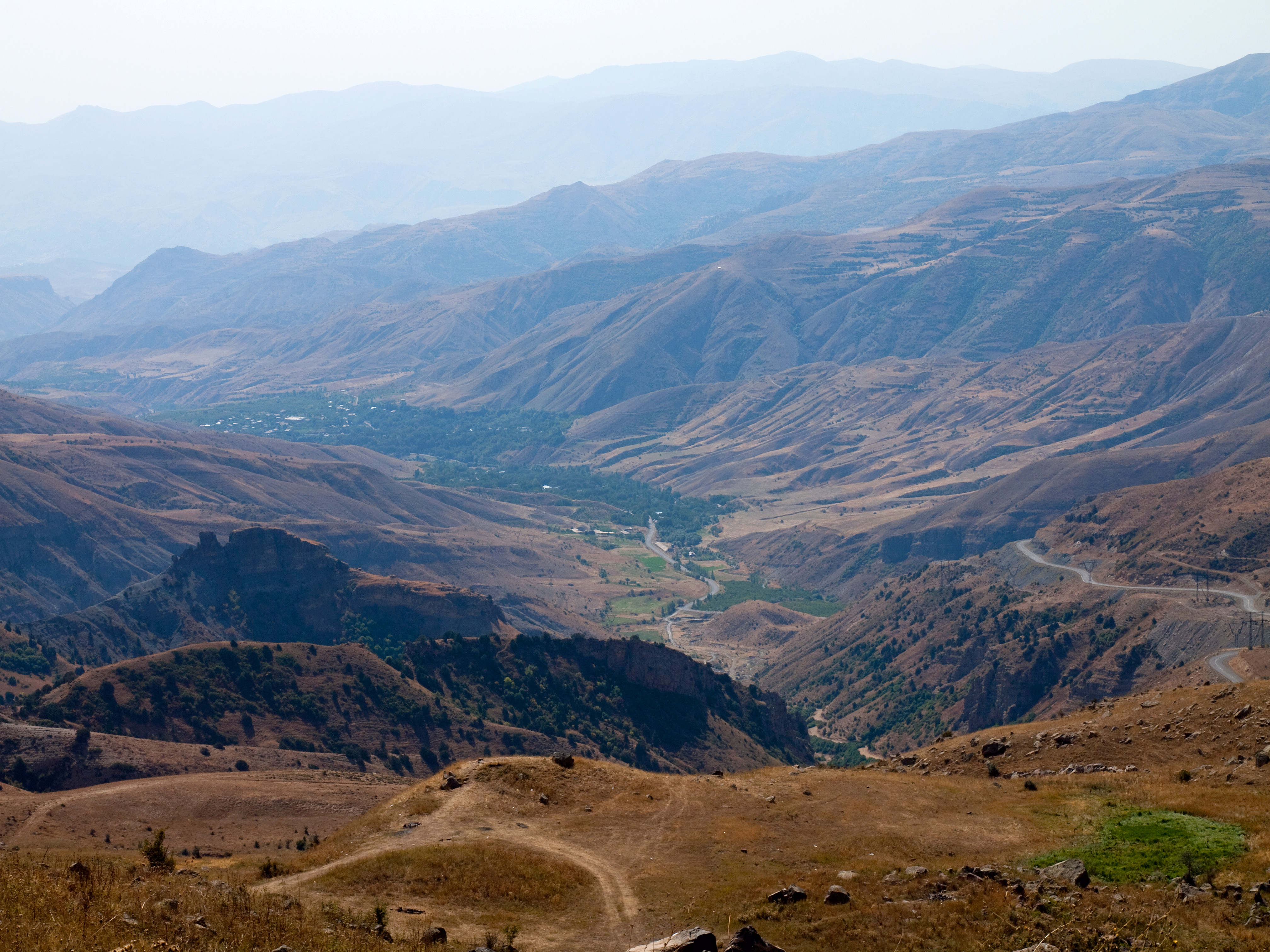 Armenia - Day 5 - 22 September 2010. The Selim Pass stands at 2410 metres above sea level and has breath-taking views.